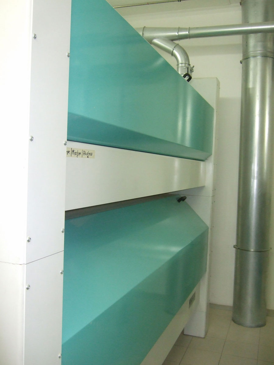 Indent Separator in grain mill, Manufacturer: Buhler AG Switzerland, Modell MTRI